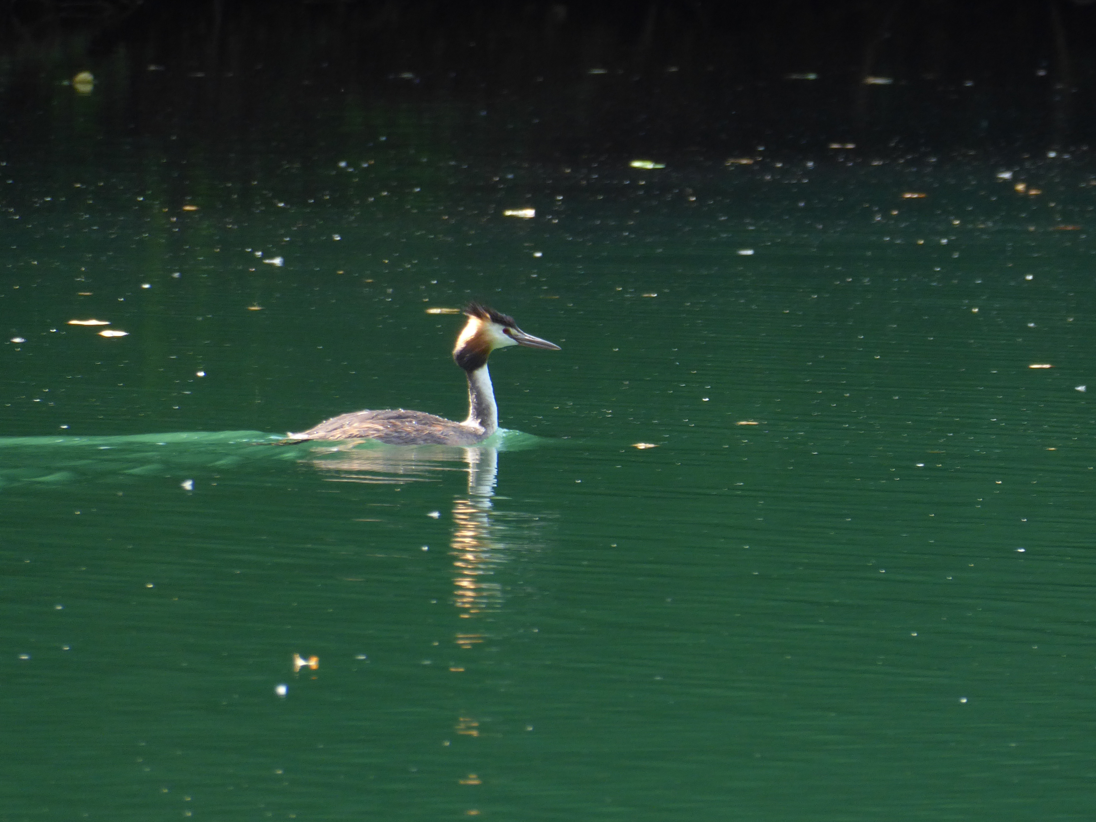 The lake of Valle in the municipality of Fornace (Trentino, Italy) - Great crested grebe